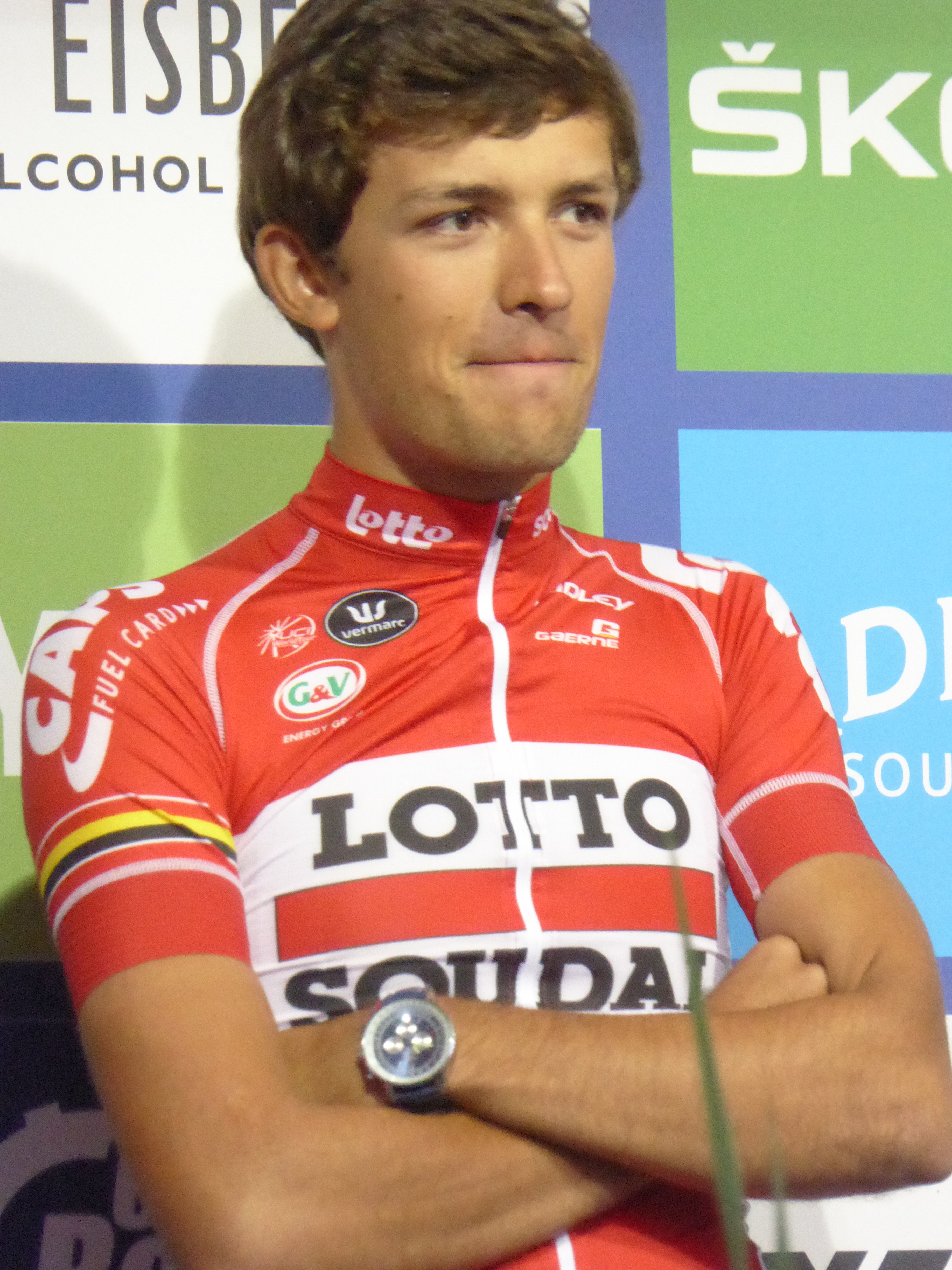 James Shaw (Lotto-Soudal stagiaire), pictured at the 2016 Tour of Britain team presentation in Glasgow on 3 September 2016.